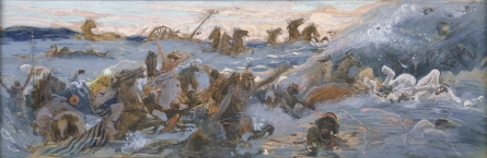 The Egyptians Are Destroyed, c. 1896-1902, by James Jacques Joseph Tissot (French, 1836-1902), gouache on board, 3 5/8 x 11 1/8 in. (9.3 x 28.3 cm), at the Jewish Museum, New York